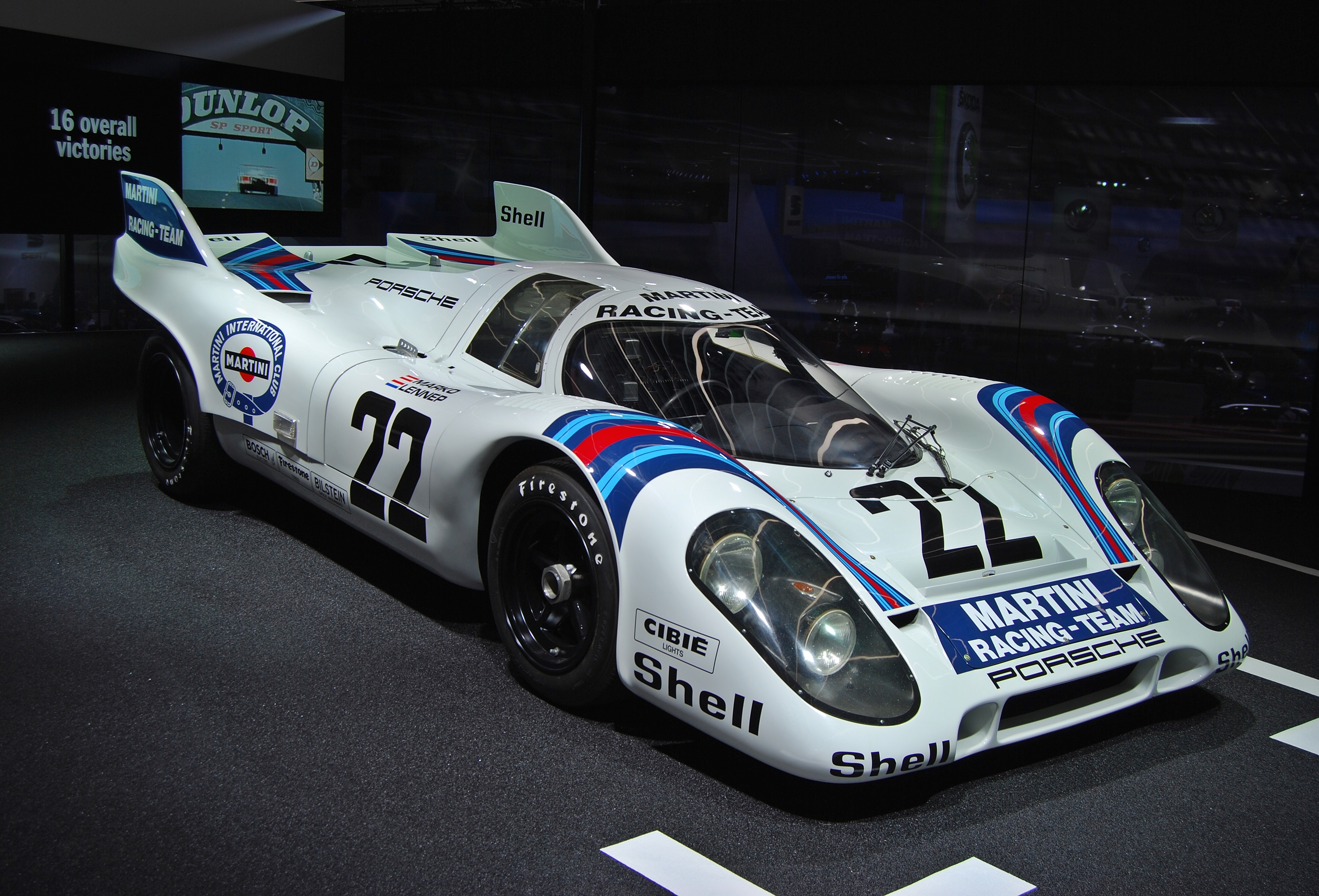 The winner of the 1971 24 Hours of Le Mans, a Porsche 917K of Martini Racing Team, on Frankfurt Motor Show 2013.